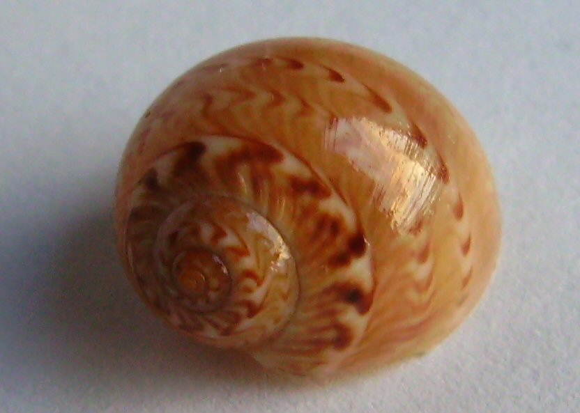 Tanea zelandica (necklace shell) dredged from the east coast of Northland , New Zealand. This work has been released into the public domain by its author, Graham Bould. This applies worldwide.In some countries this may not be legally possible; if so:Graham Bould grants anyone the right to use this work for any purpose, without any conditions, unless such conditions are required by law.